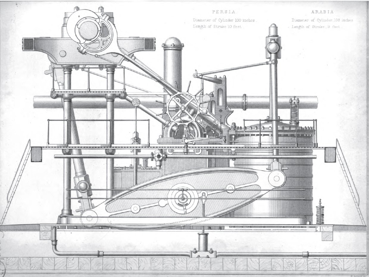 Side-lever engines of the RMS Persia and RMS Arabia, side elevation.